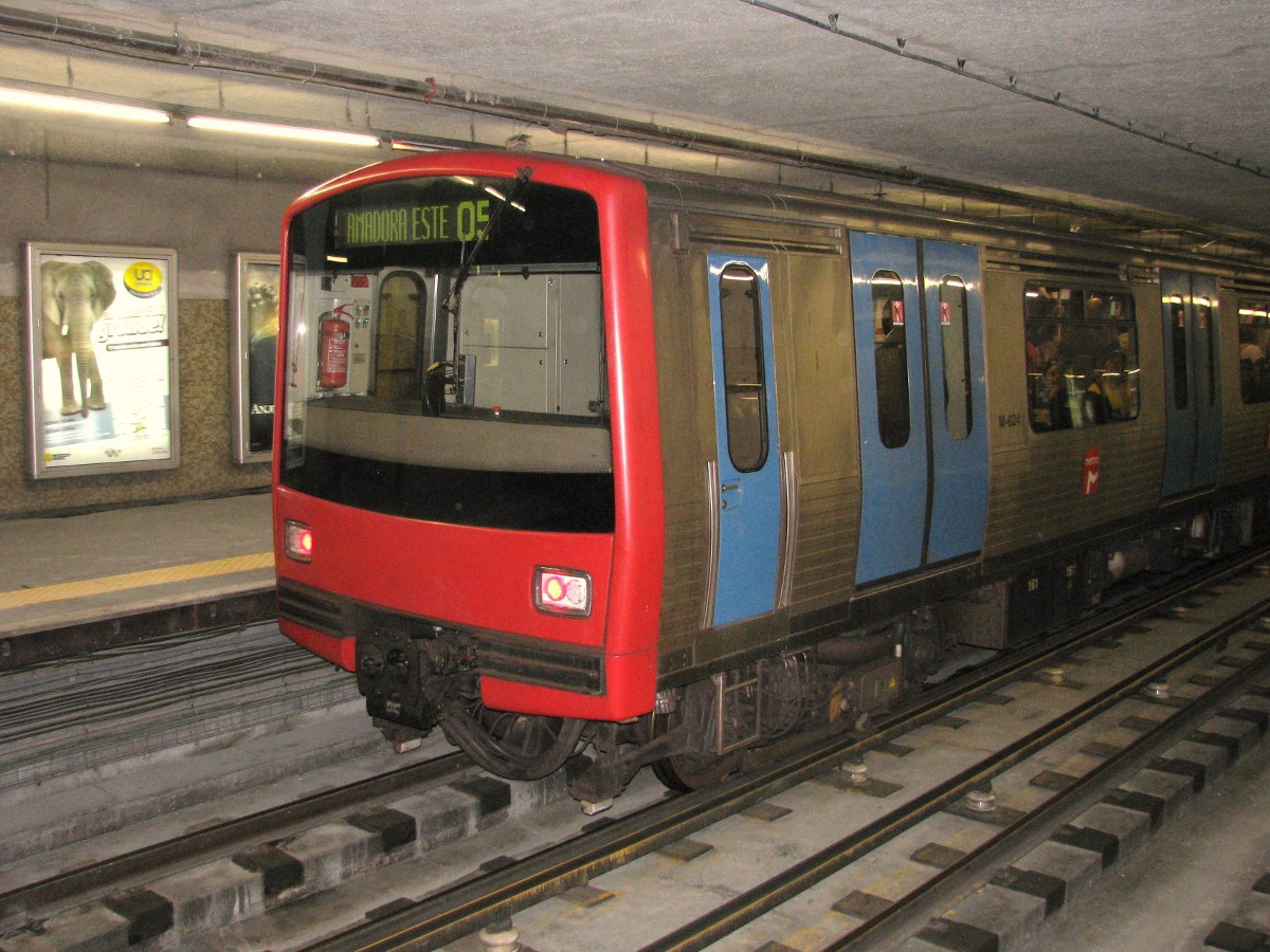 Lisbon Metro